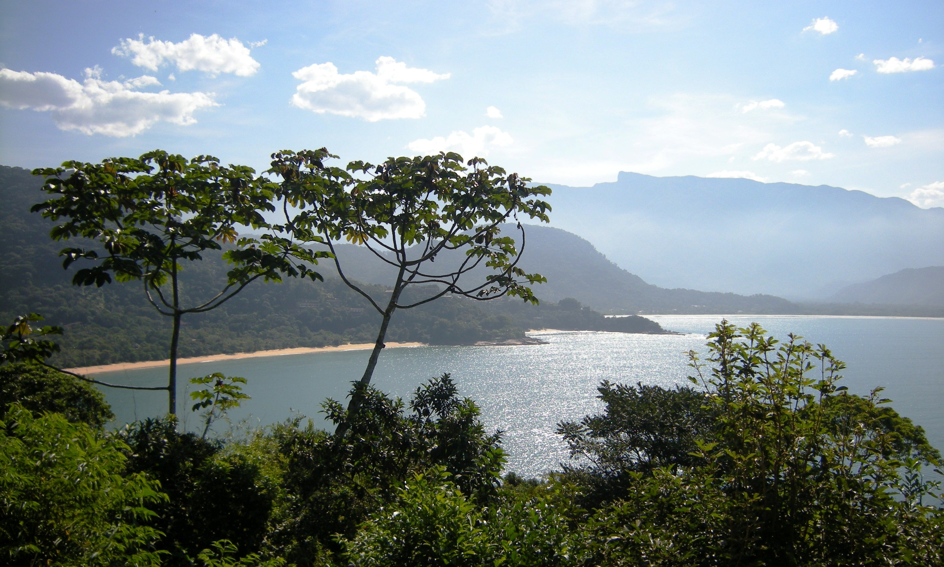 Picture shows, from the left, the following beaches: Praia Vermelha do Sul, Praia Brava do Sul and Praia Dura, located in the city of Ubatuba, in São Paulo, Brasil.